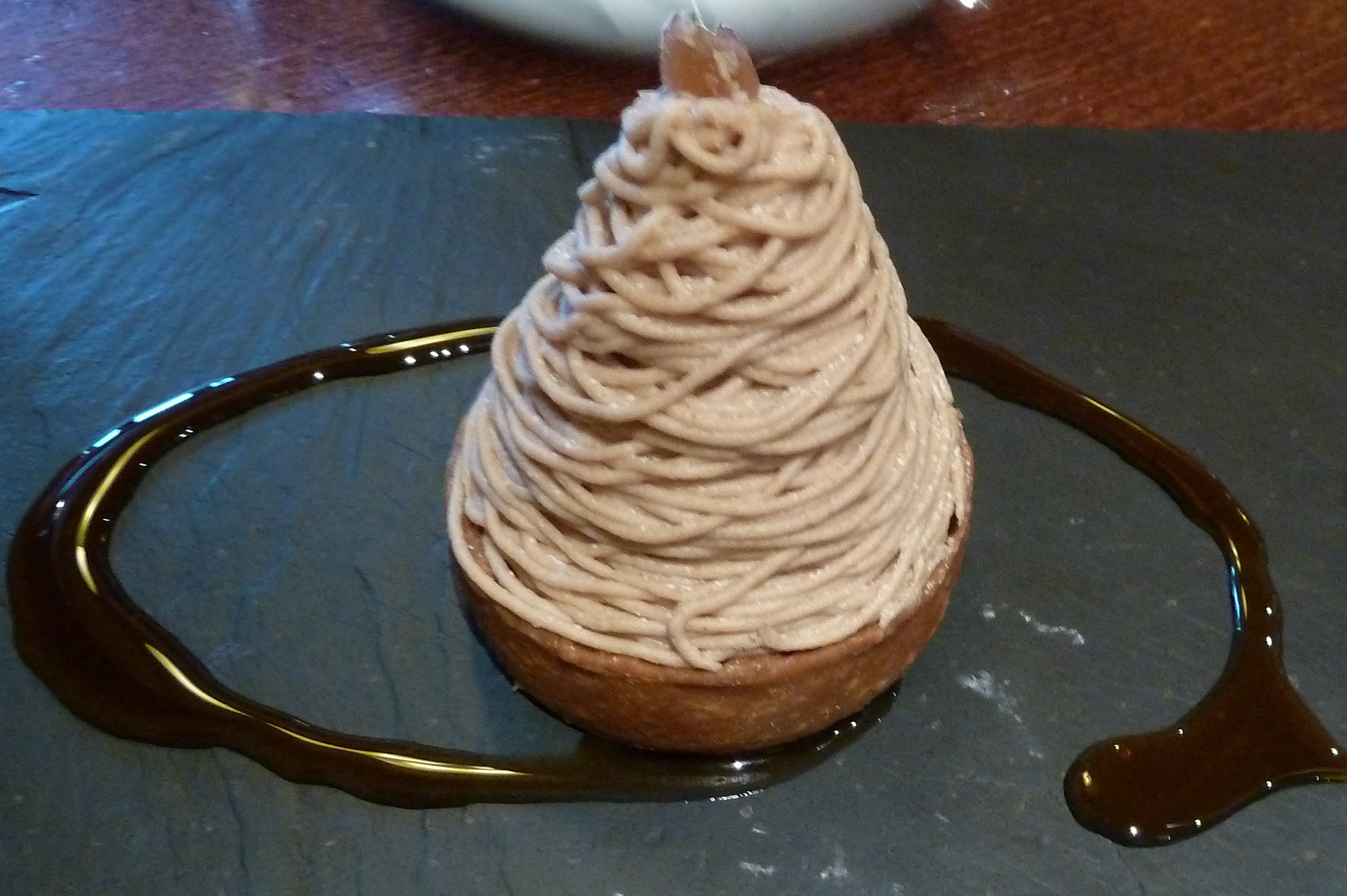 Picture of the typical french mont-blanc dessert. Taken in a french restaurant near the Cathédrale Notre Dame in Paris.